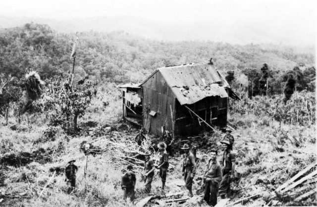 Sattelberg, New Guinea, November 1943 following the capture of the position by Australian troops from the 26th Brigade.